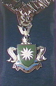 A photo of the Warringah Council Coat of Arms as it appears on the mayoral chain